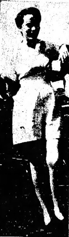 Last known picture of Virginia taken by a friend from Texarkana Junior College